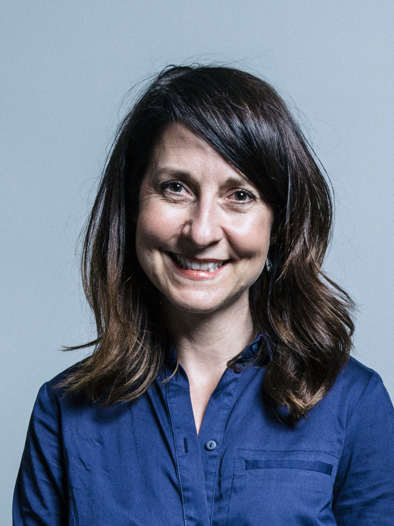 Official portrait of Liz Kendall